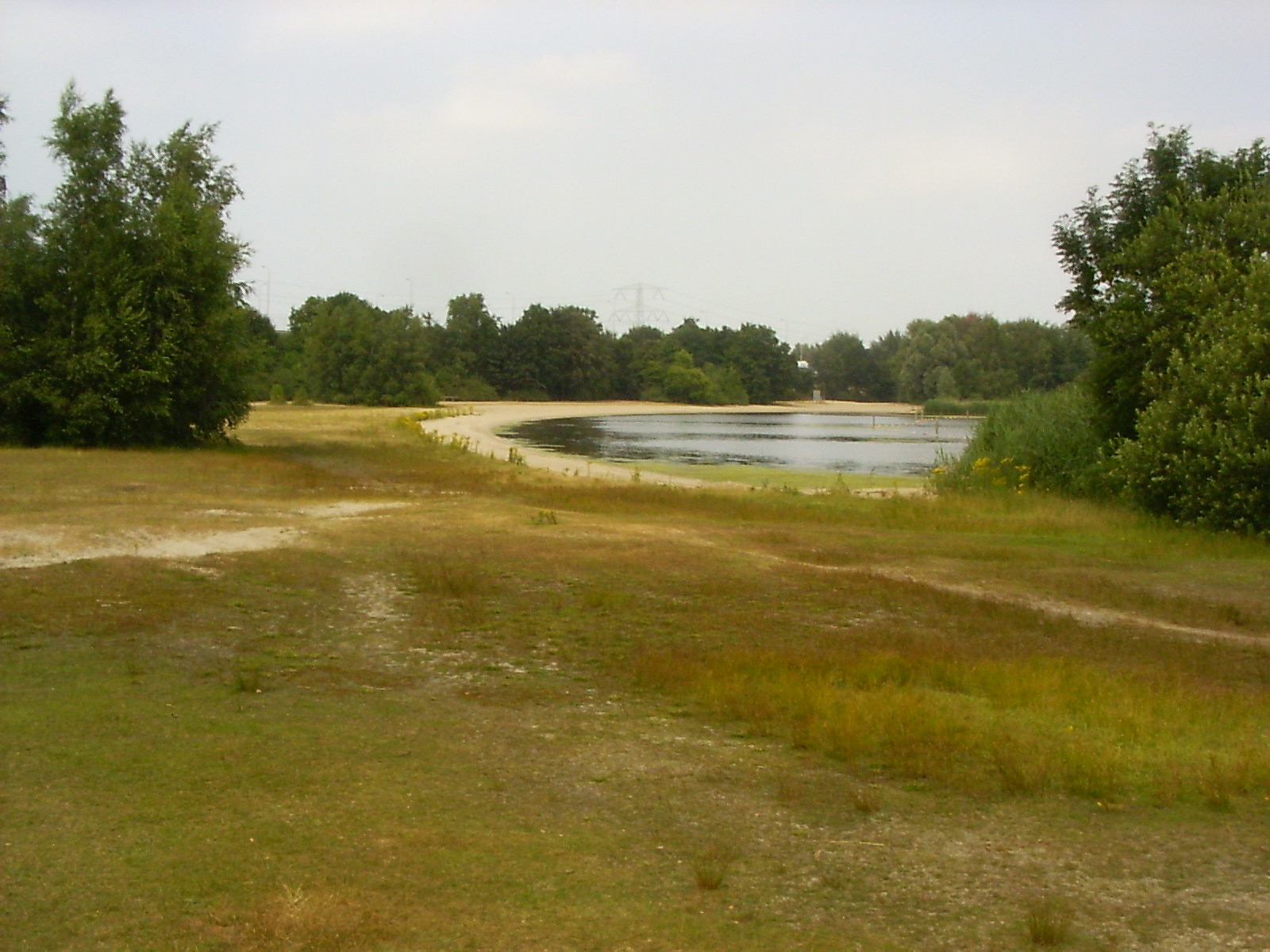 Silver Beach Almere. View from the swingers area towards the family area.